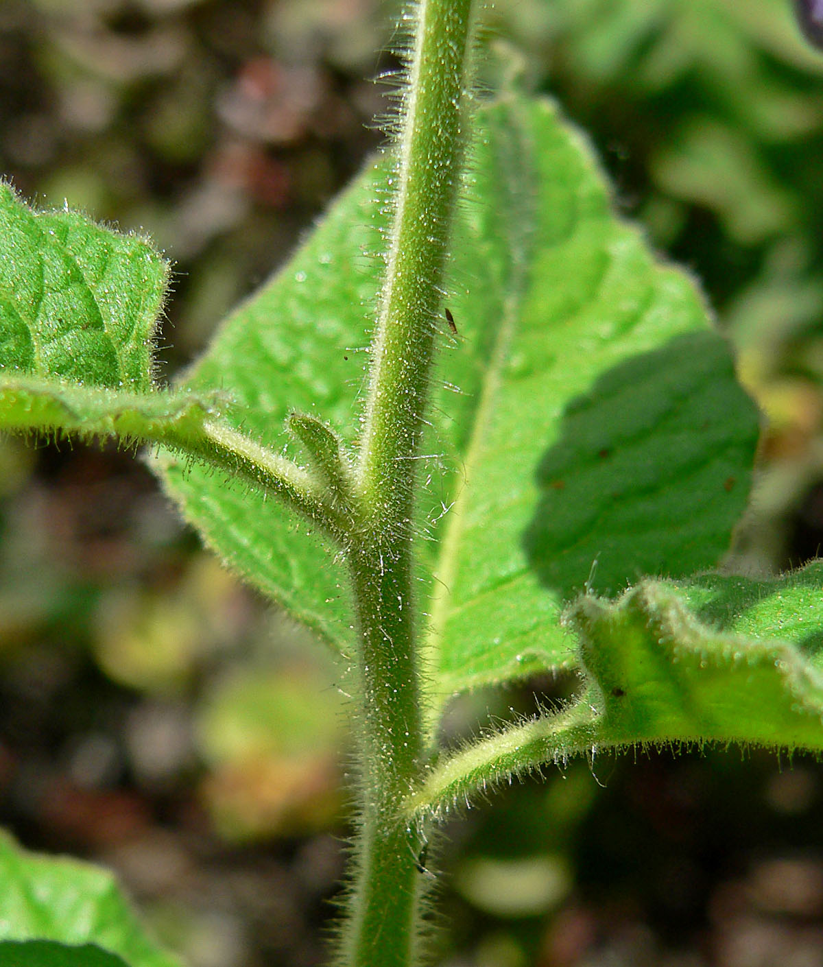 Photo of Solanum wallacei at the Regional Parks Botanic Garden, Berkeley, California